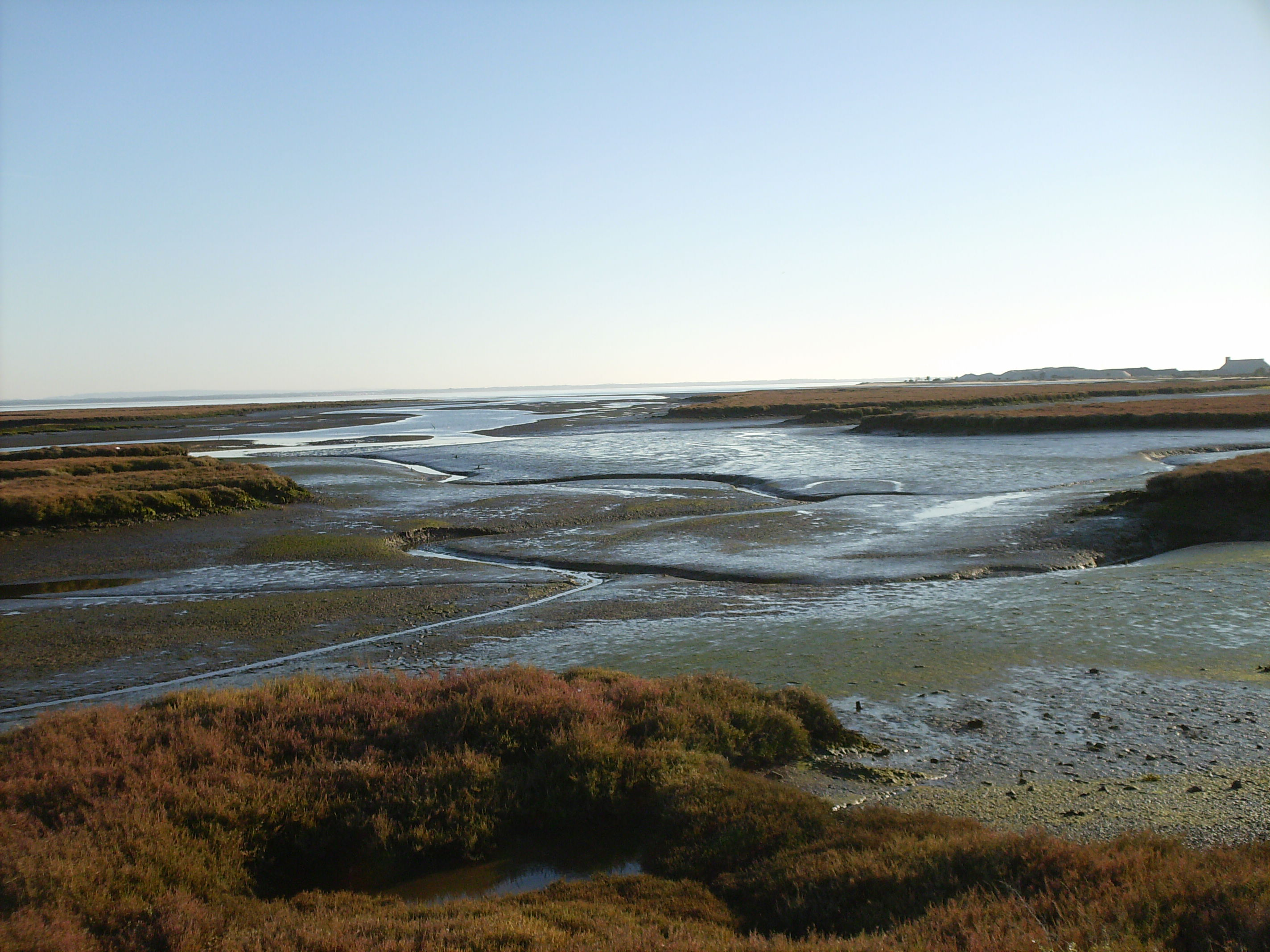 Sado Estuary in the freguesia of Praias do Sado